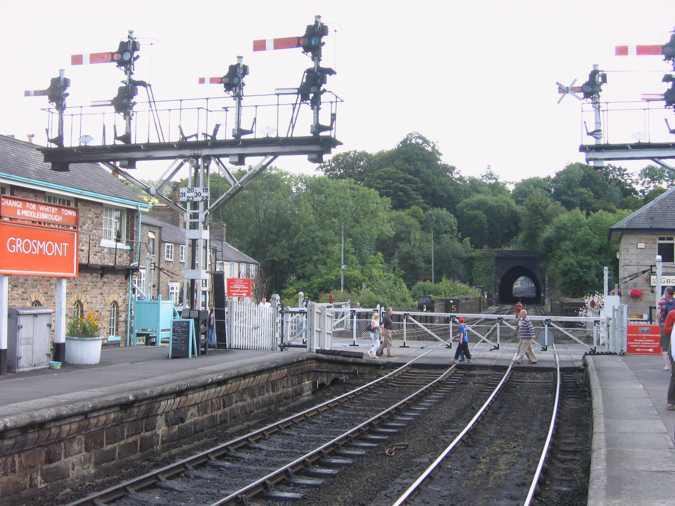 exit signals of Grosmont station and tunnel